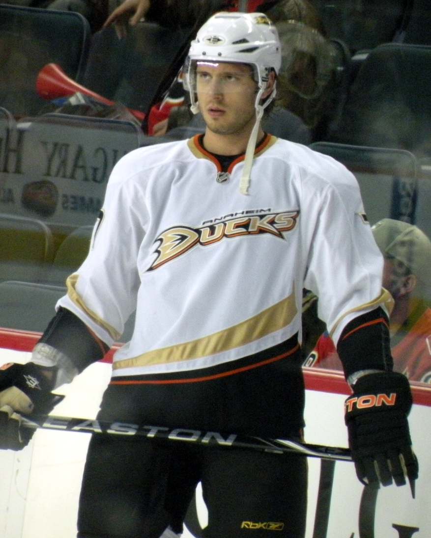 Anaheim Ducks defenceman Steve Eminger prior to a National Hockey League game against the Calgary Flames.